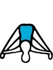 pose8